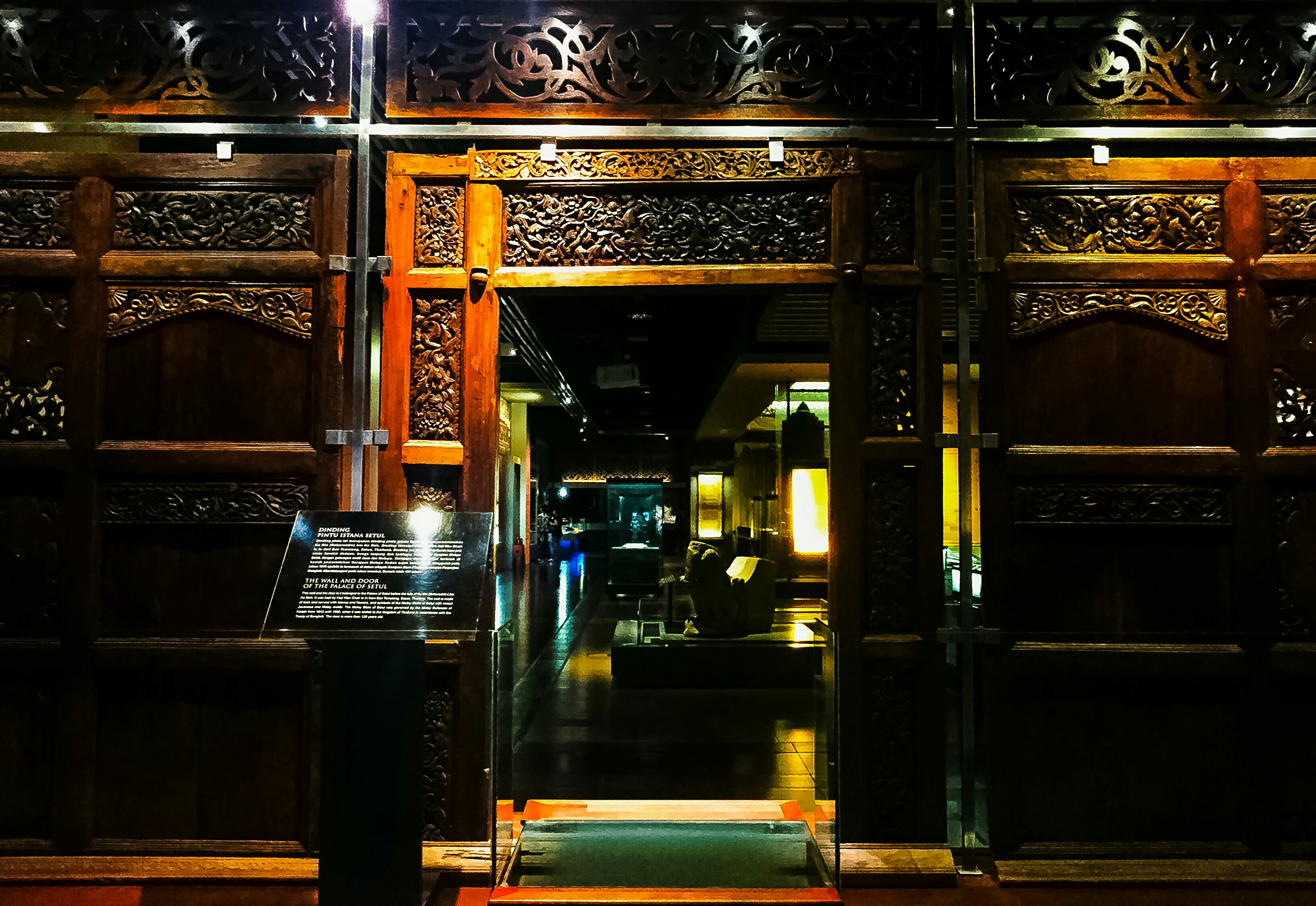 A door panel of the classical Setul Mambang Segara palaticial residence.